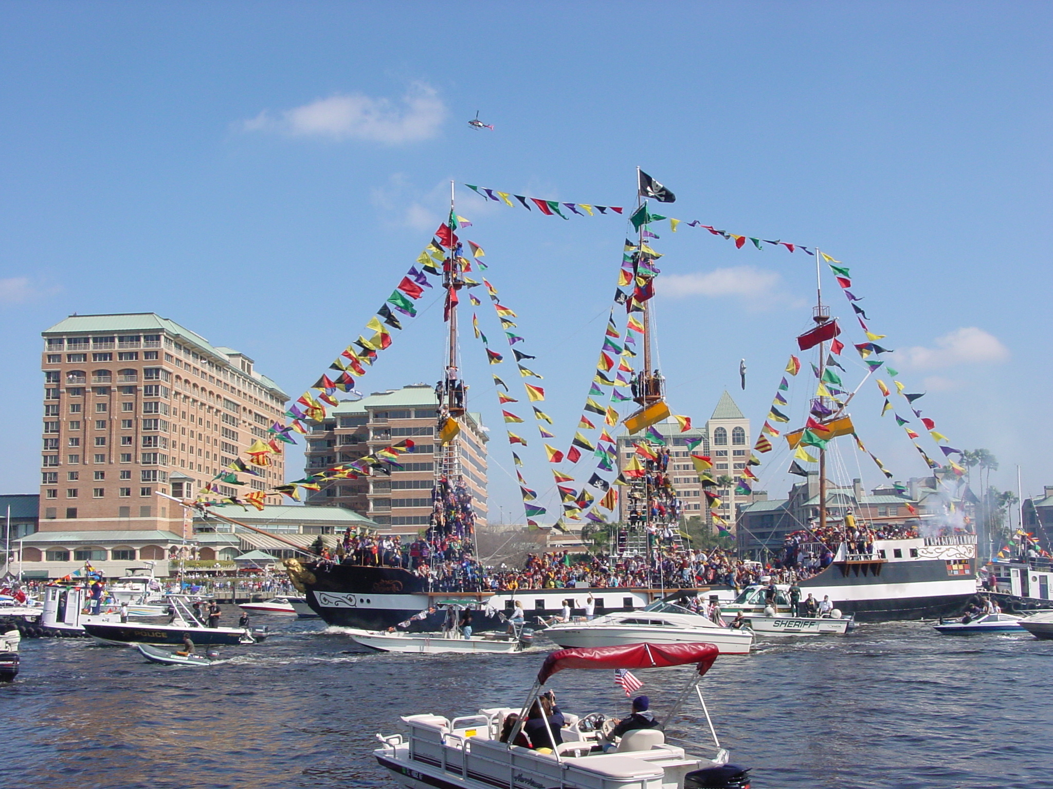 This photograph is of the main pirate ship Jose Gaspar in the Gasparilla Pirate Fest that is held yearly in Tampa, Florida.